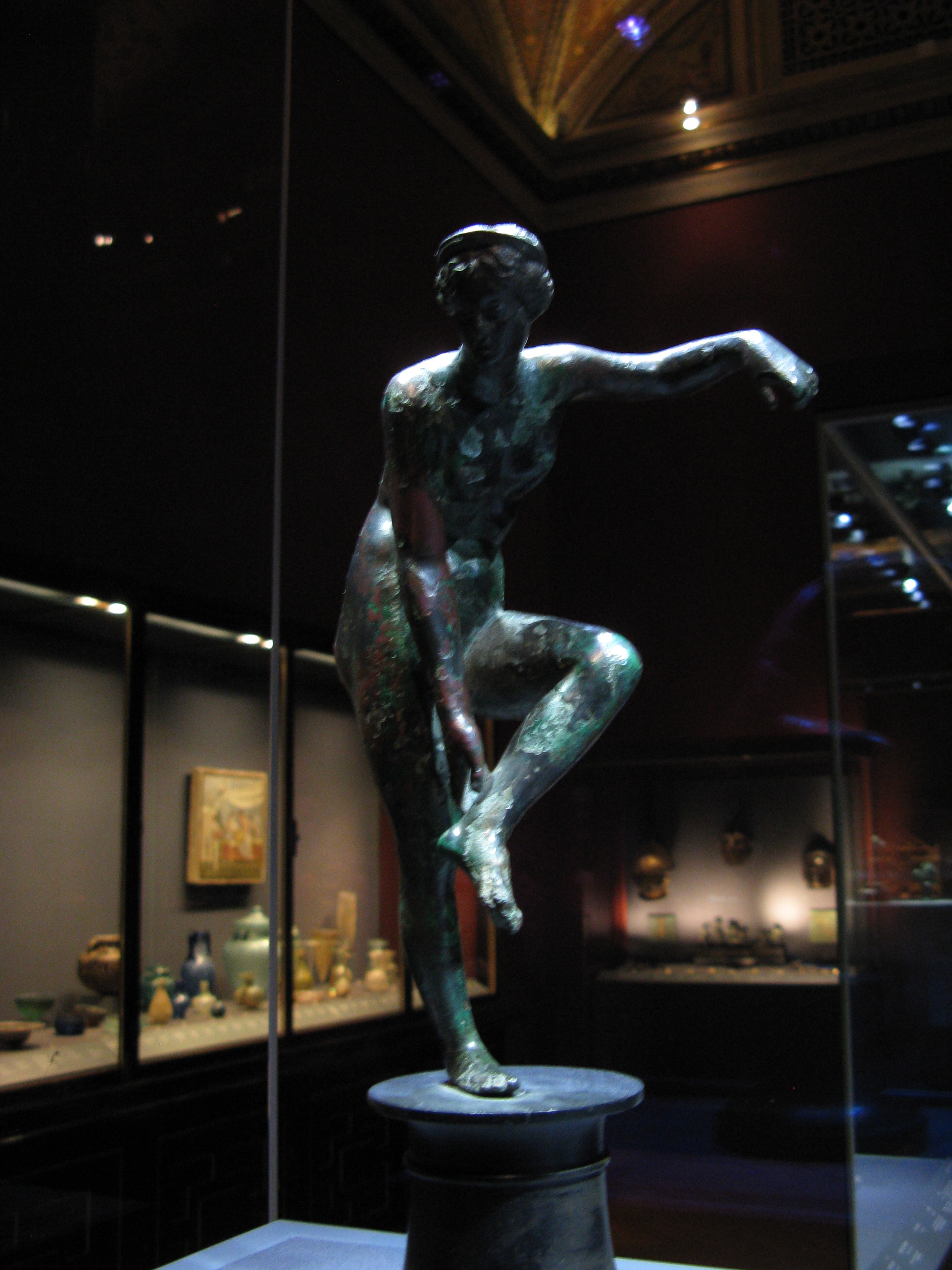 Aphrodite removing her sandal at Kunsthistorisches Museum.